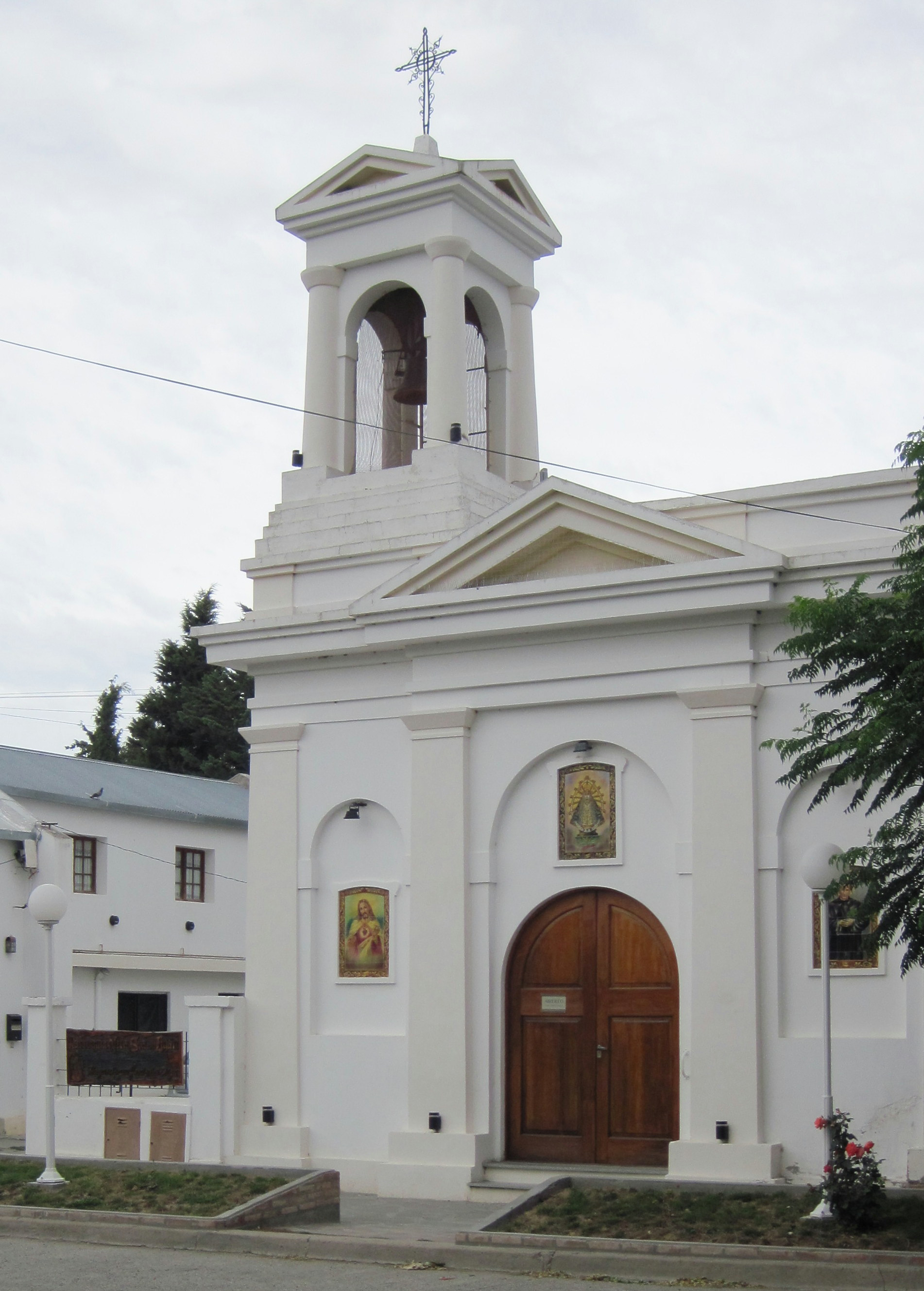 Catholic church in Gaiman, Chubut, Argentina